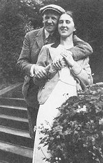 German Reich-Chancellor Kurt von Schleicher and his wife Elisabeth in 1931.